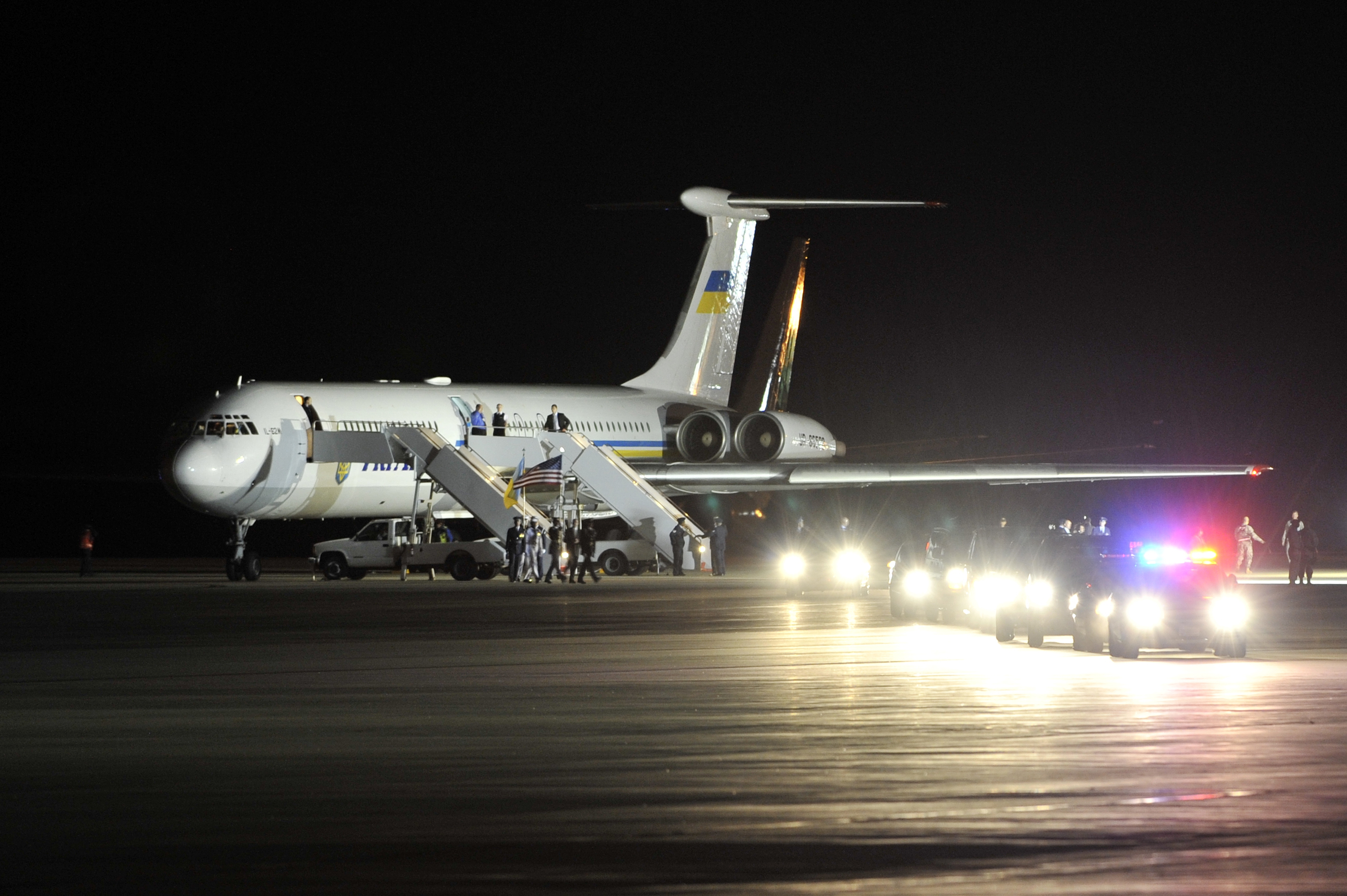 Ukrainian President Viktor Yanukovych's motorcade departs the flight line of Joint Base Andrews Naval Air Facility Washington, Md., April 11, 2010. Yanukovych is in the area to attend the Nuclear Security Summit hosted by President Barack Obama in Washington, D.C. (DoD photo by Airman 1st Class Perry Aston, U.S. Air Force/Released)